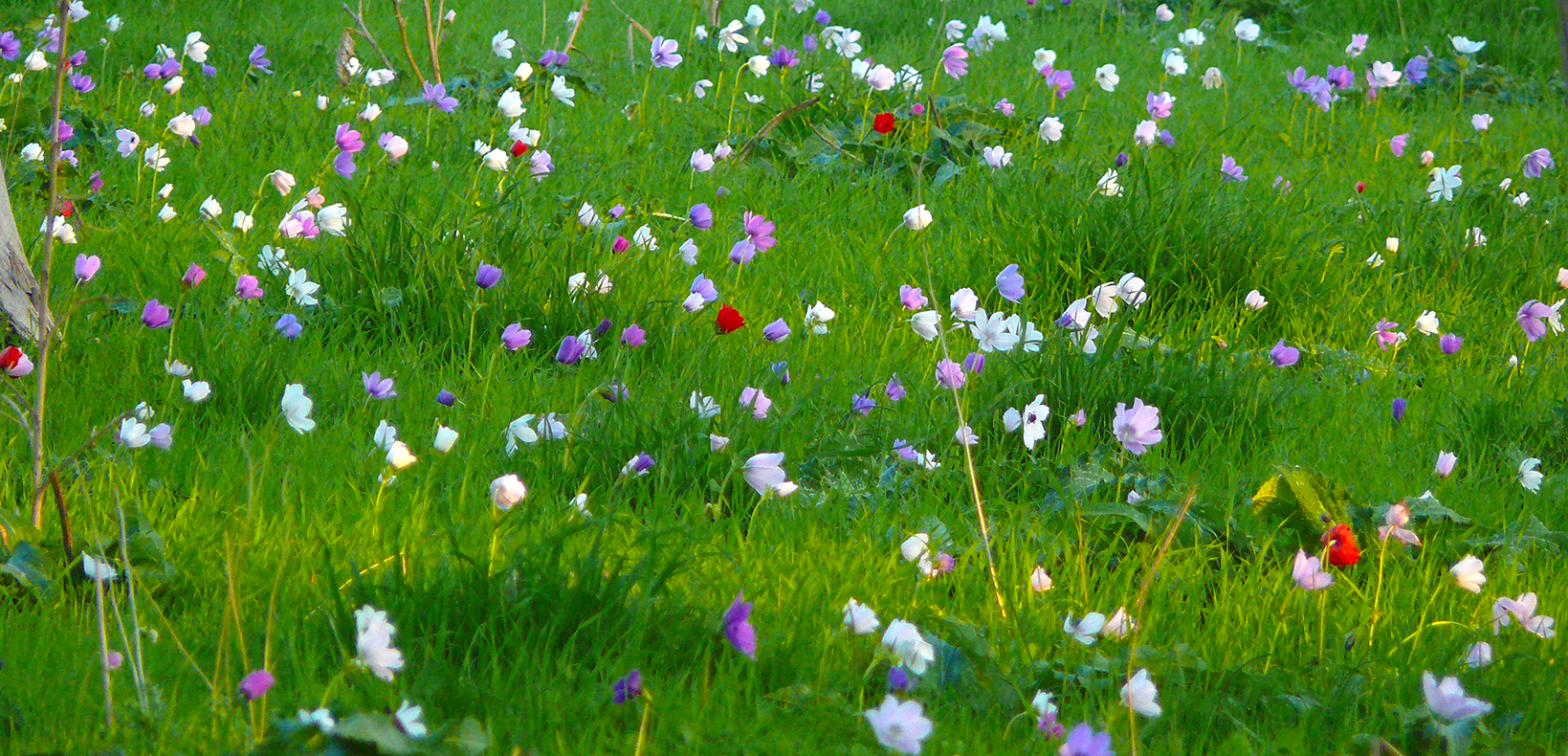 Anemone coronaria, Meggido, Israel